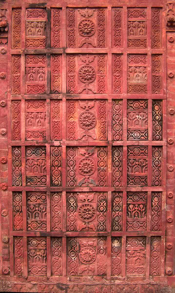 Bengali Islamic terracotta at the 17th-century Atia Mosque in Tangail, Bangladesh